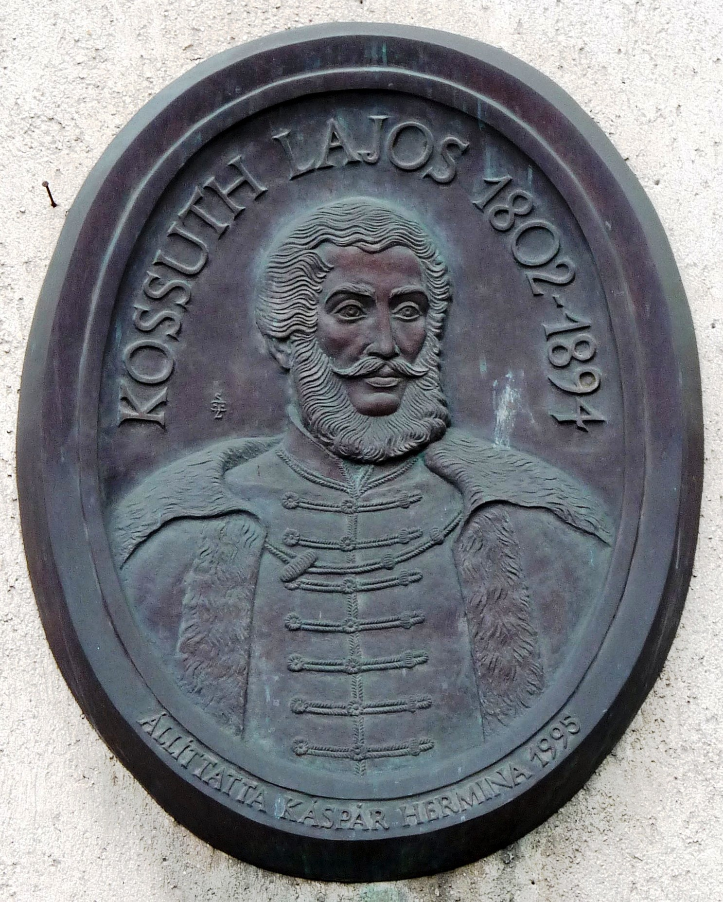 Commemorative plaque to Mr. Lajos Kossuth (1802–1894) Hungarian lawyer, journalist, politician and Regent-President of Hungary in 1849. The author of the bronze relief is Emma Sz. Egyed (1995). (Sopron, Ferenczy János Street Nr 2)